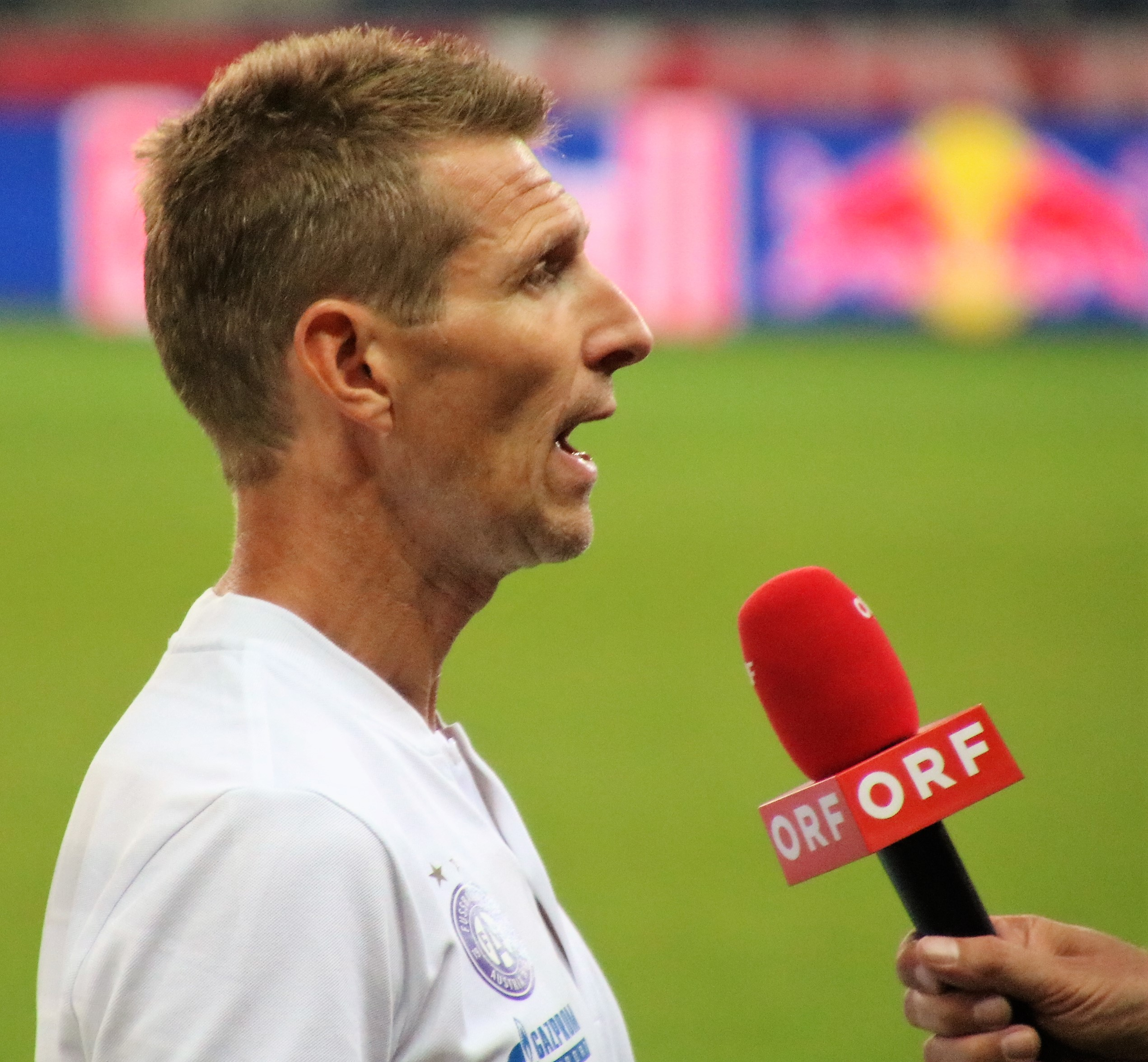 league match Austria 2nd league